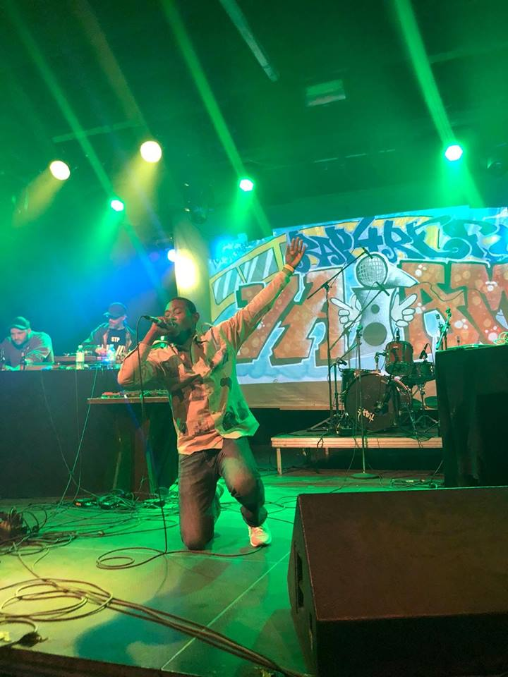 Nash MC performing during the "Berlin Rap for Refugees" on 25-August-2018. Kiswahili: Nash MC akitumbuiza wakati wa tamasha la "Rap kwa ajili ya Wakimbizi" lililofanyika mjini Berlin, Ujerumani, mnamo tarehe 25-Agosti-2018.